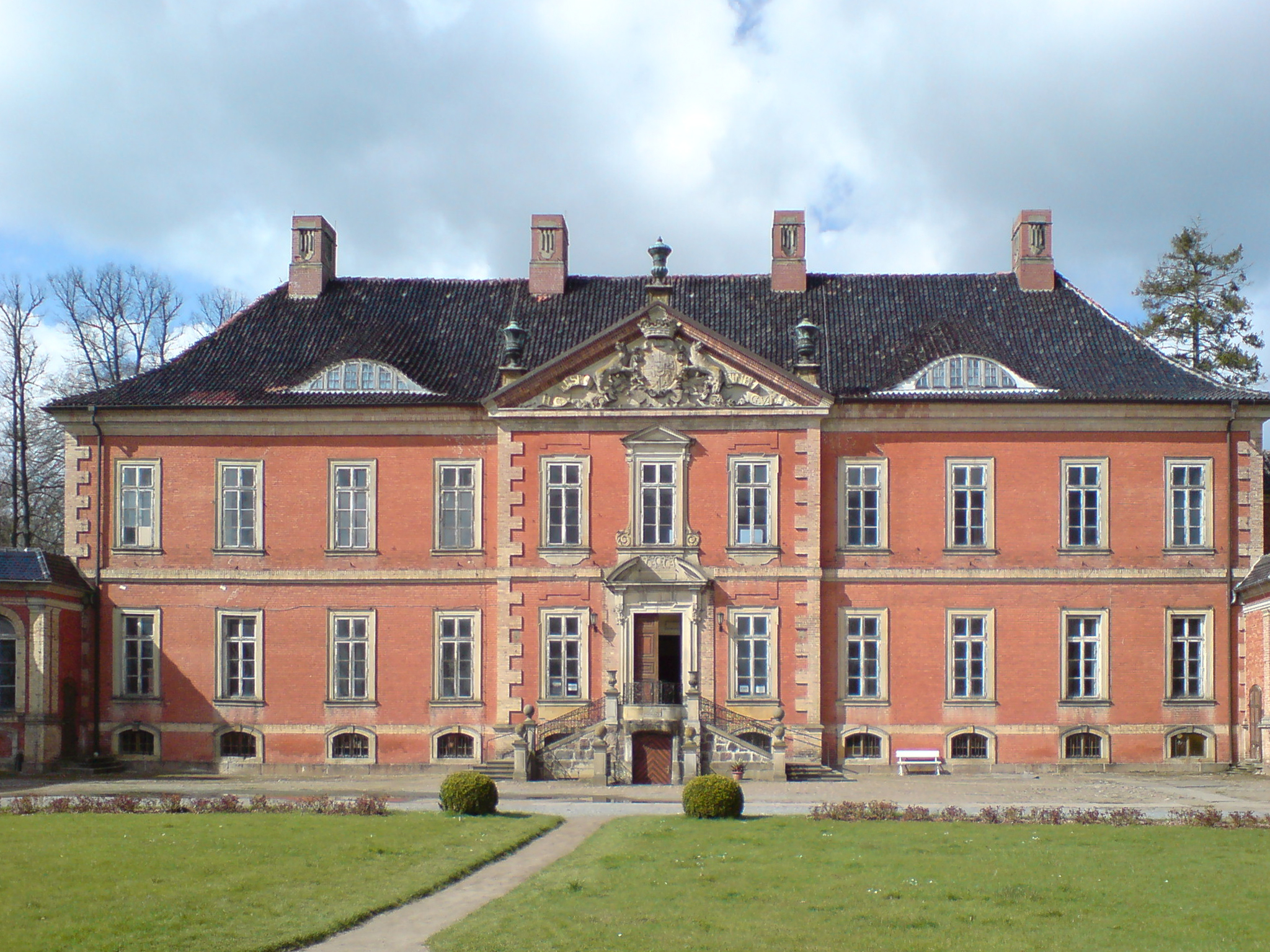 Bothmer Palace, Main Building